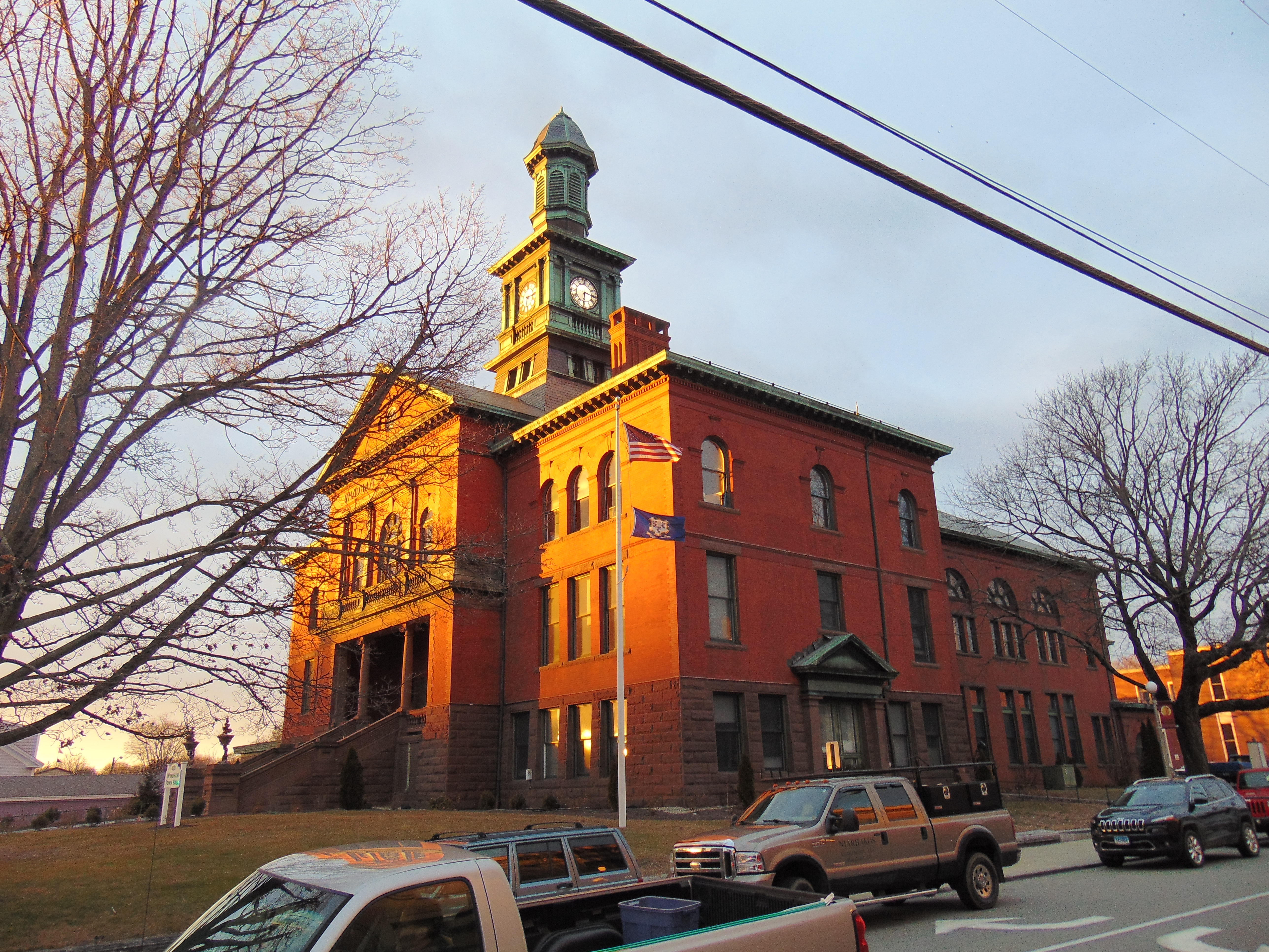 The Windham Town Hall at sunset